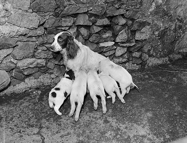 A bitch rearing piglets at Brynafon, Angelsey. Teitl Cymraeg/Welsh title: Gast yn magu moch bach ym Mrynafon, Sir Fon Ffotograffydd/Photographer: Geoff Charles (1909-2002) Dyddiad/Date: 9/8/1960 Cyfrwng/Medium: Negydd ffilm / Film negative Cyfeiriad/Reference: (gch22295) Rhif cofnod / Record no.: 3470678 Rhagor o wybodaeth am gasgliad Geoff Charles yn Llyfrgell Genedlaethol Cymru More information about the Geoff Charles Collection at the National Library of Wales Mae ffotograffau Geoff Charles hefyd yn rhan o Broject Europeana Libraries Geoff Charles' photographs also form part of the Europeana Libraries Project